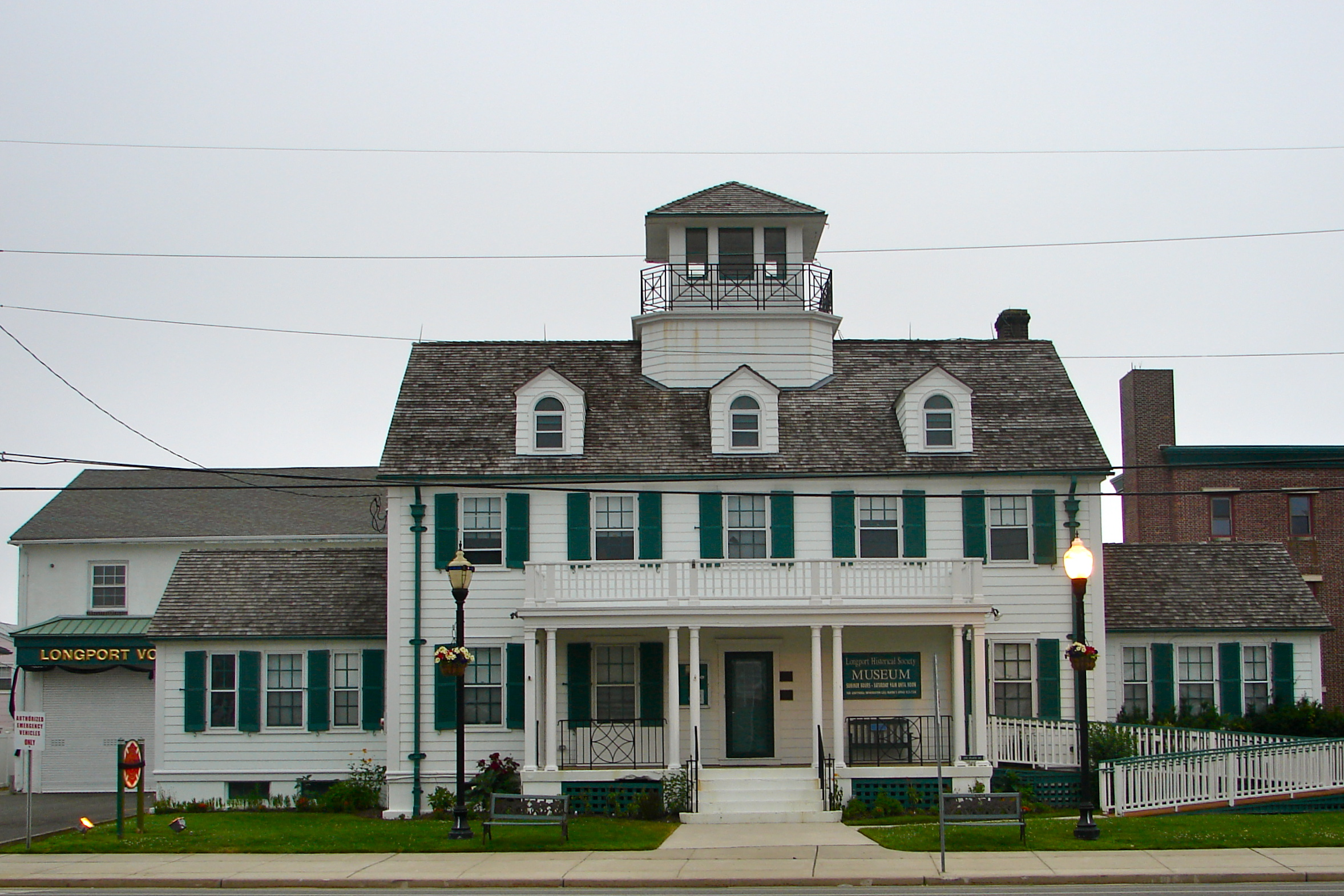 Great Egg Coast Guard Station on the NRHP since October 31, 2005. At 2301 Atlantic Ave., Longport, New Jersey. South of and on the same island as Atlantic City, New Jersey.